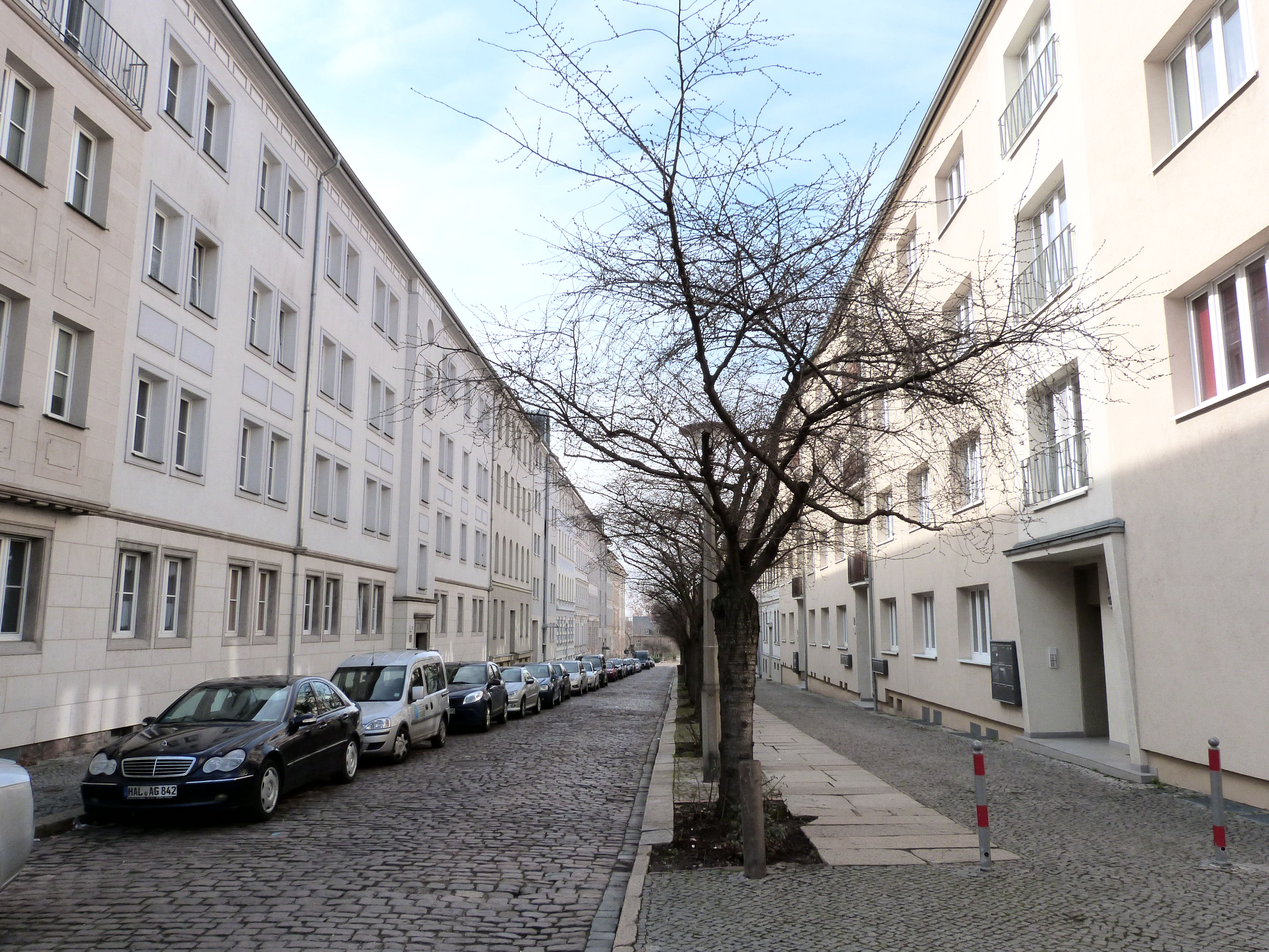 Street Parkstraße in Halle (Saale)